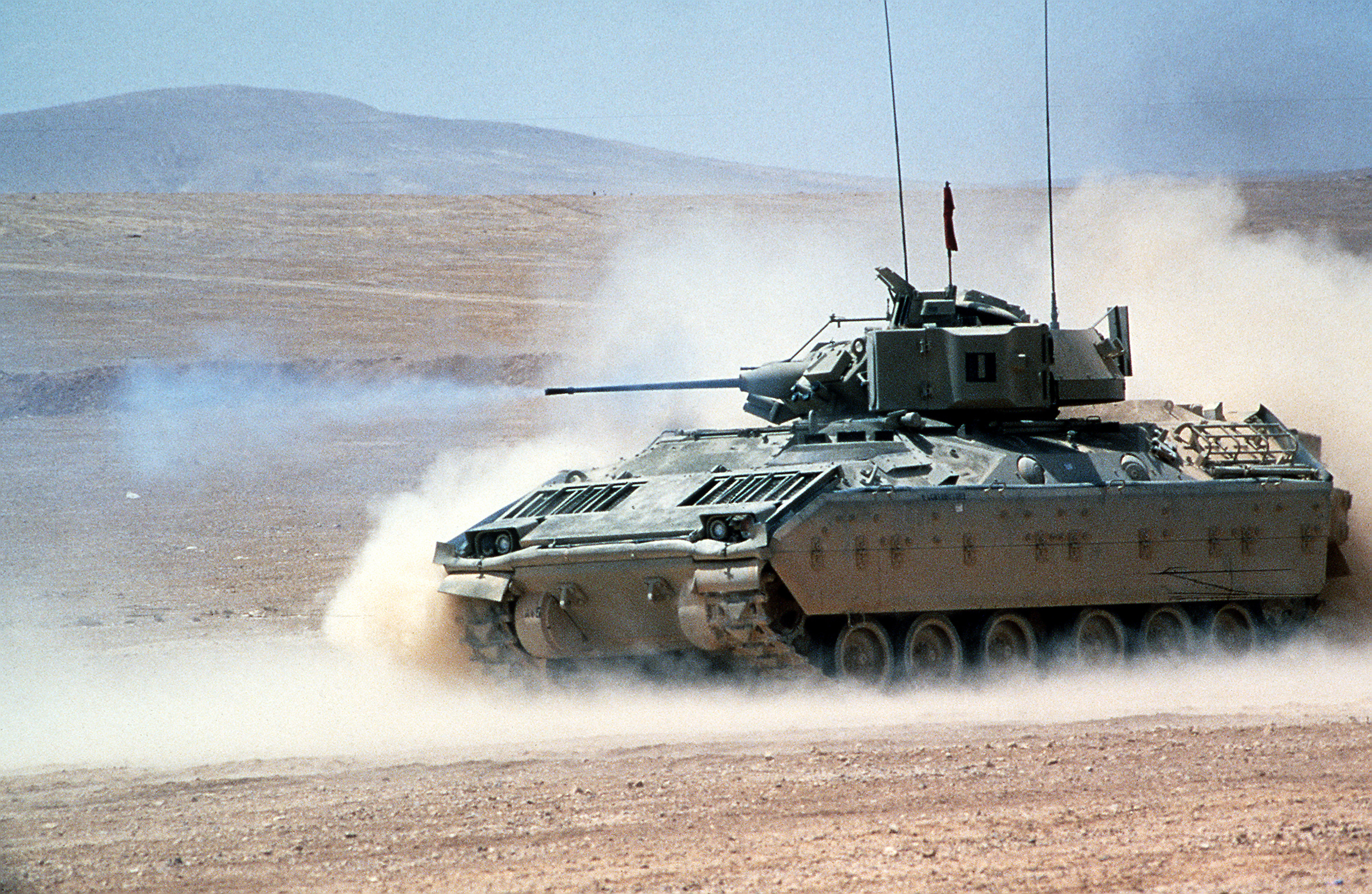 An M-2 Bradley infantry fighting vehicle fires its M-242 25mm main gun while ?maneuvering in the desert ?during the capabilities exercise portion of Exercise Shadow Hawk '87, a phase of Exercise Bright Star '87. The exercise will evaluate procedures used to deploy U.S. tactical and logistical forces.